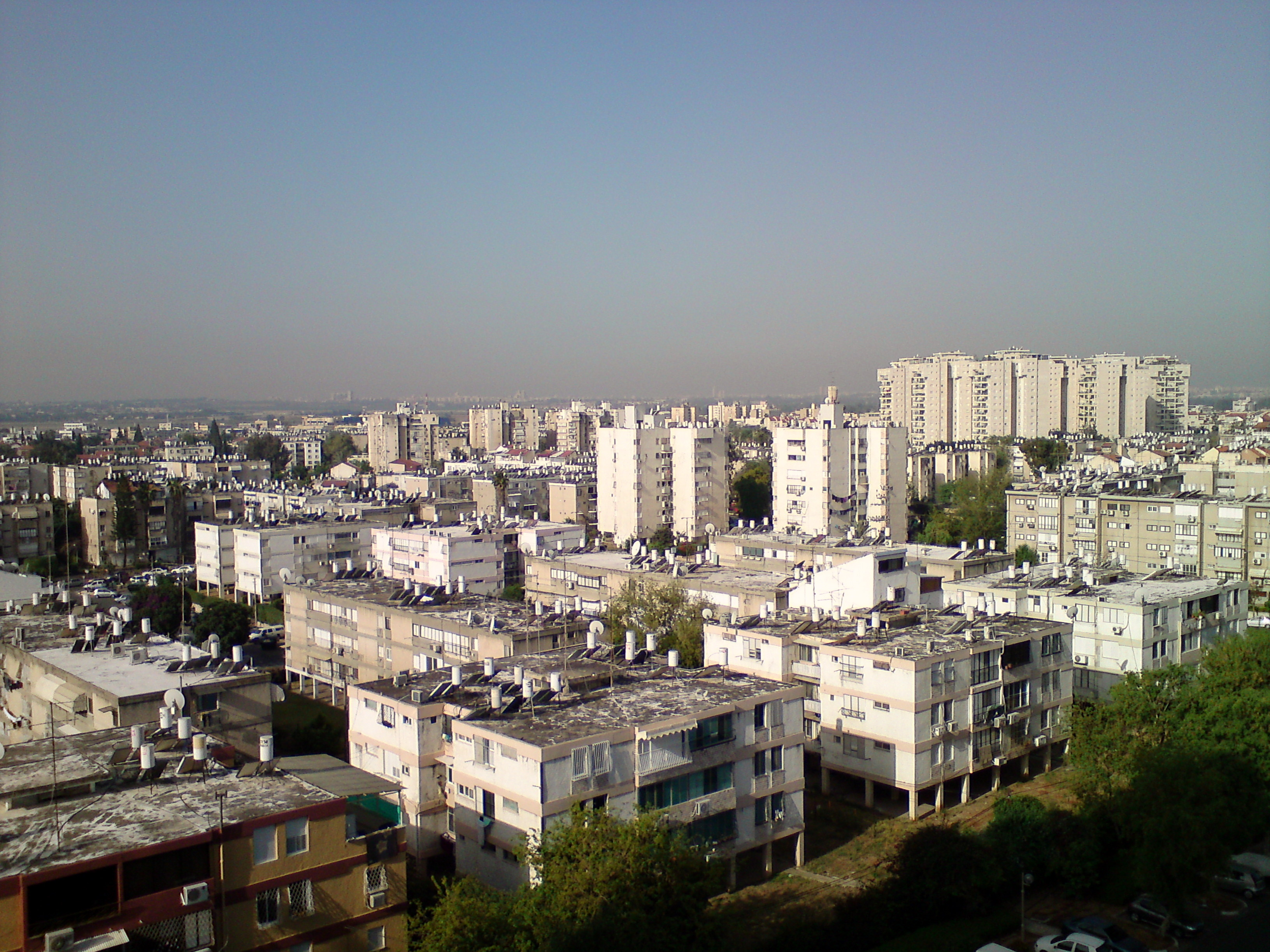 Or Yehuda, Israel